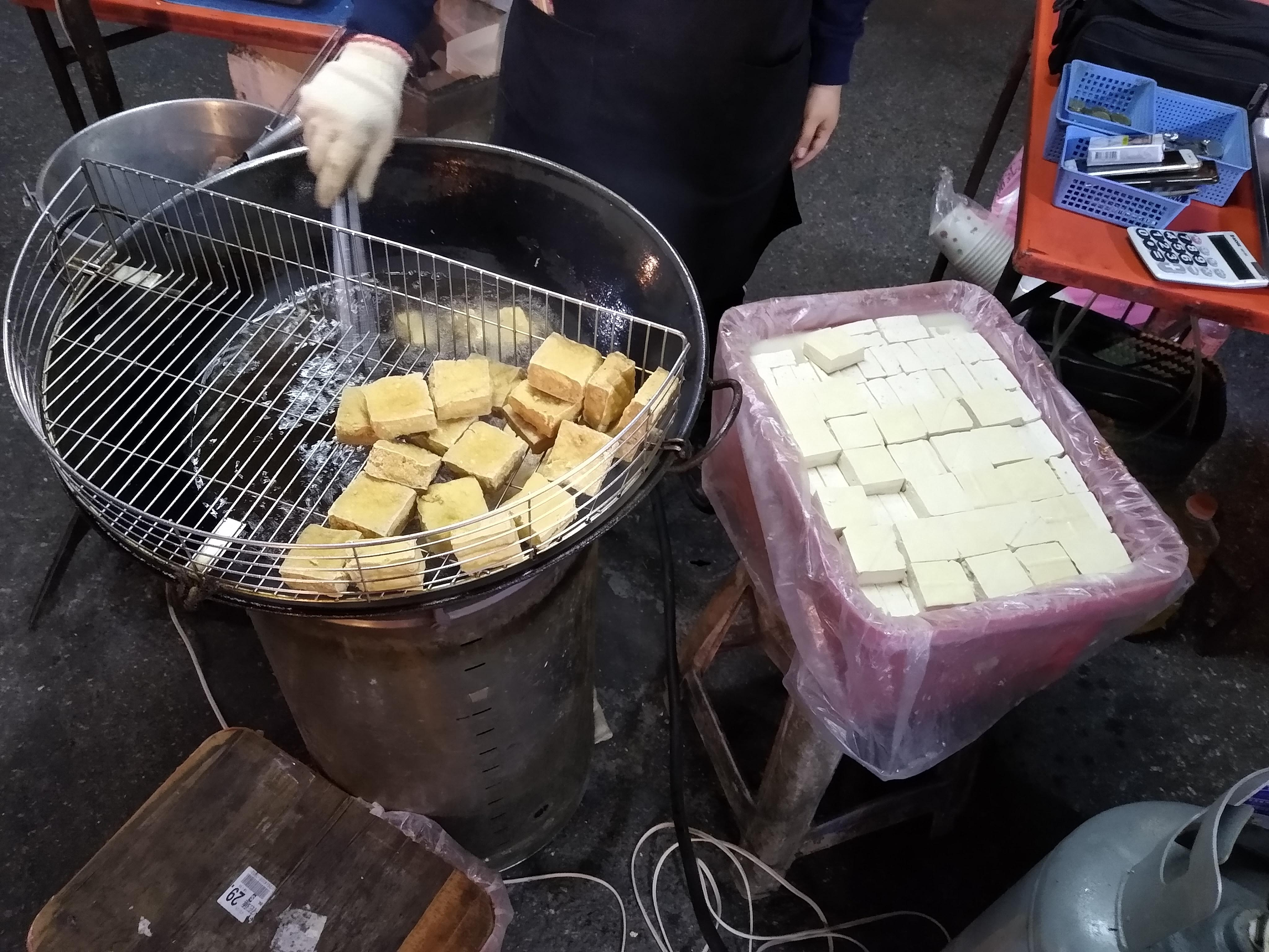 Stinky tofu being prepared at the Xincheng Night Market in Xincheng, Taiwan